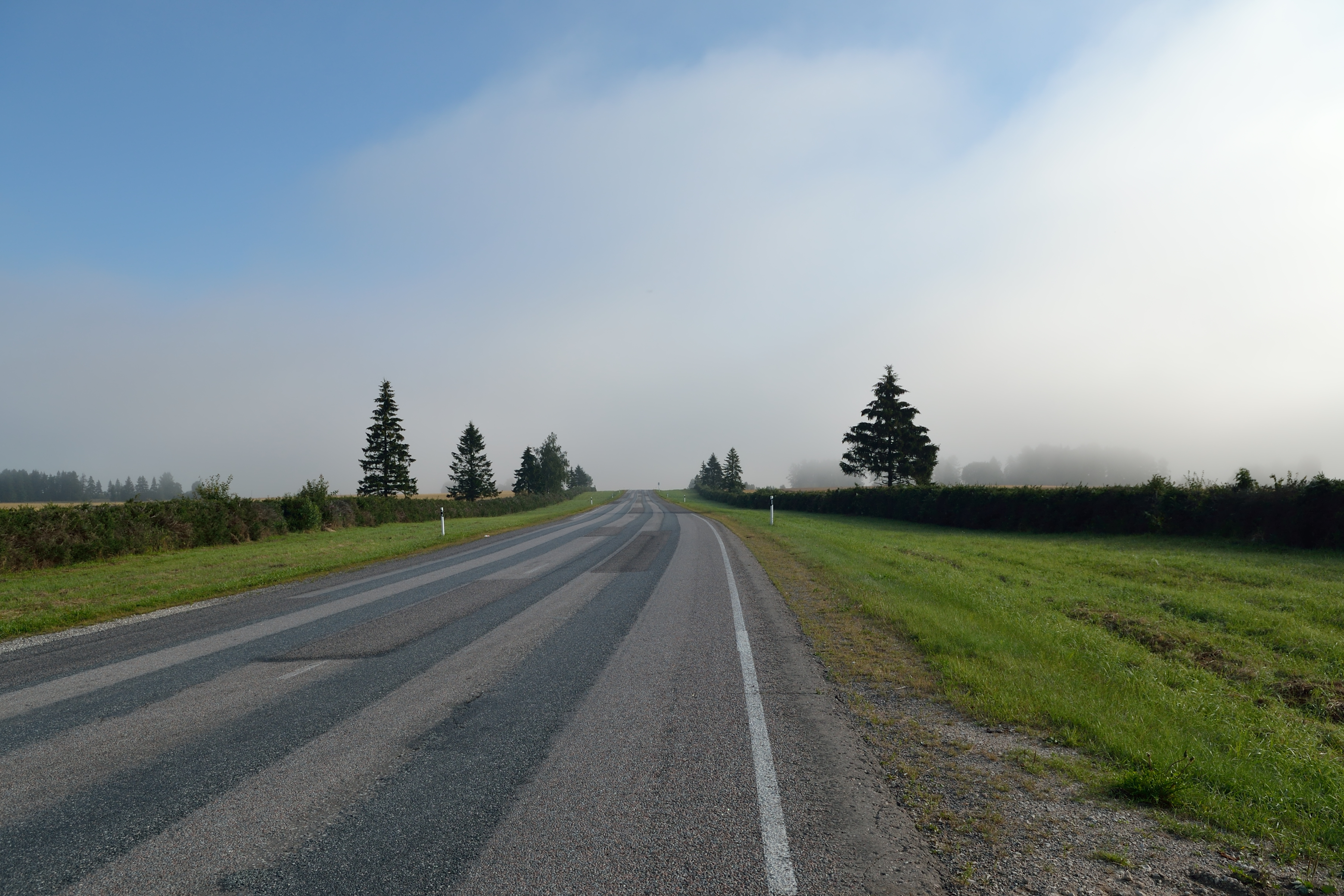 Fog in front of Pärnu–Rakvere–Sõmeru road in Udriku village (Estonia)